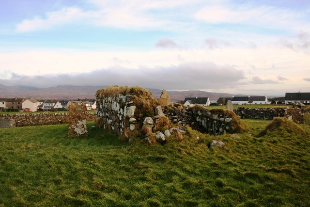 Cill Chalium Chille Saint Columba's Chapel lies to the west of the hamlet of Keills itself a corruption of Cill or chapel.